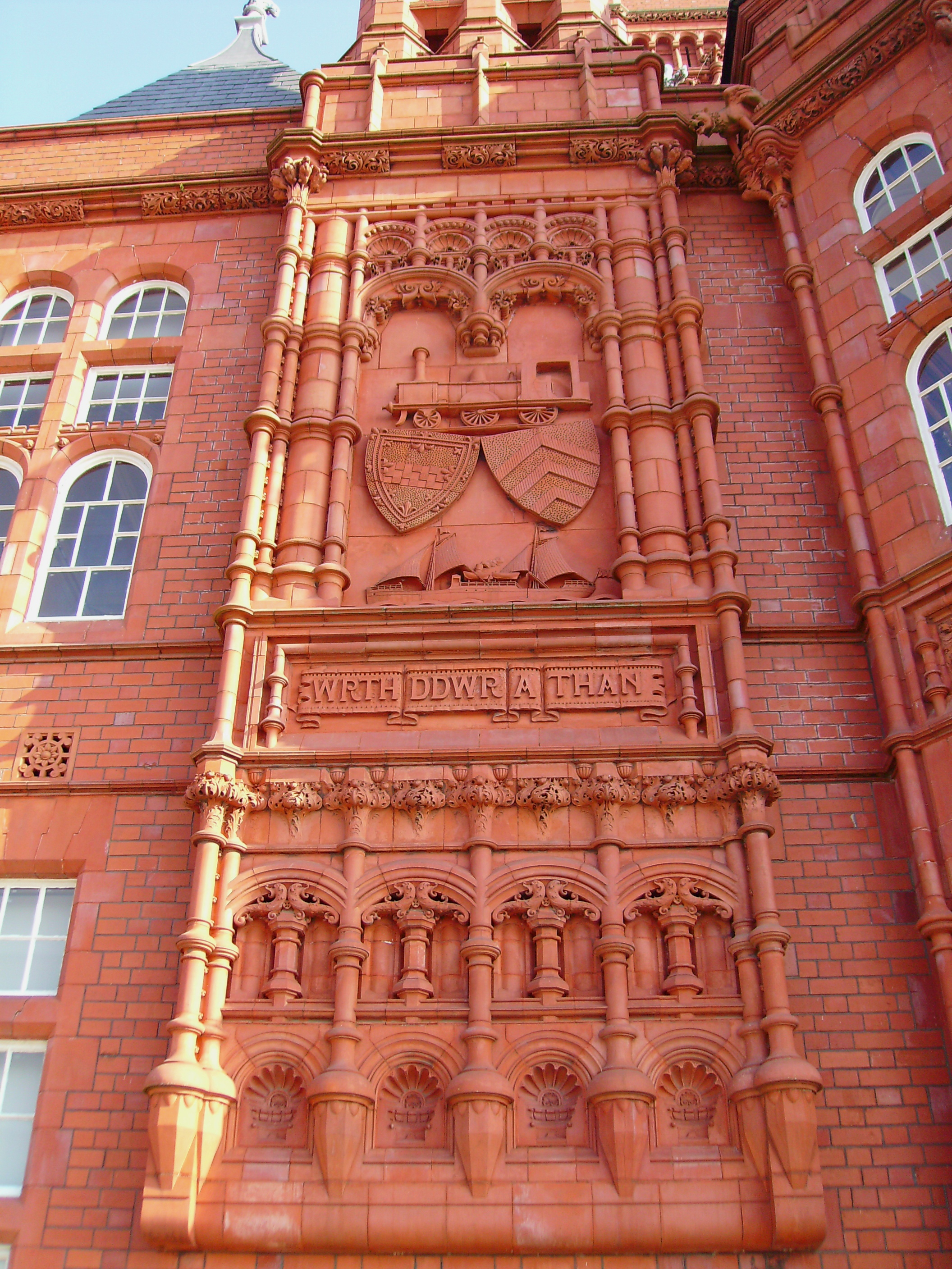 Pierhead Building, Cardiff Bay, Wales